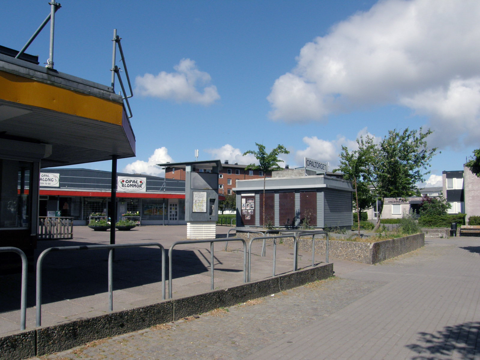 Opaltorget, Göteborg Sweden. City planning from the Million Programme